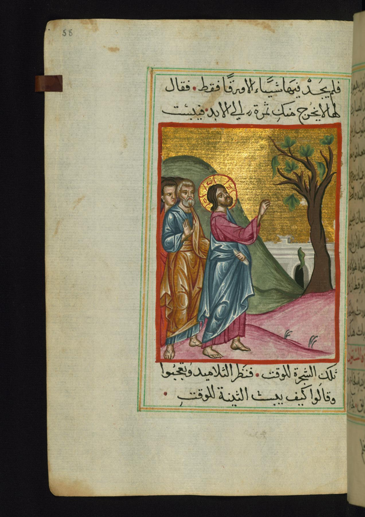 On this folio from Walters manuscript W.592, Jesus curses the fig tree.